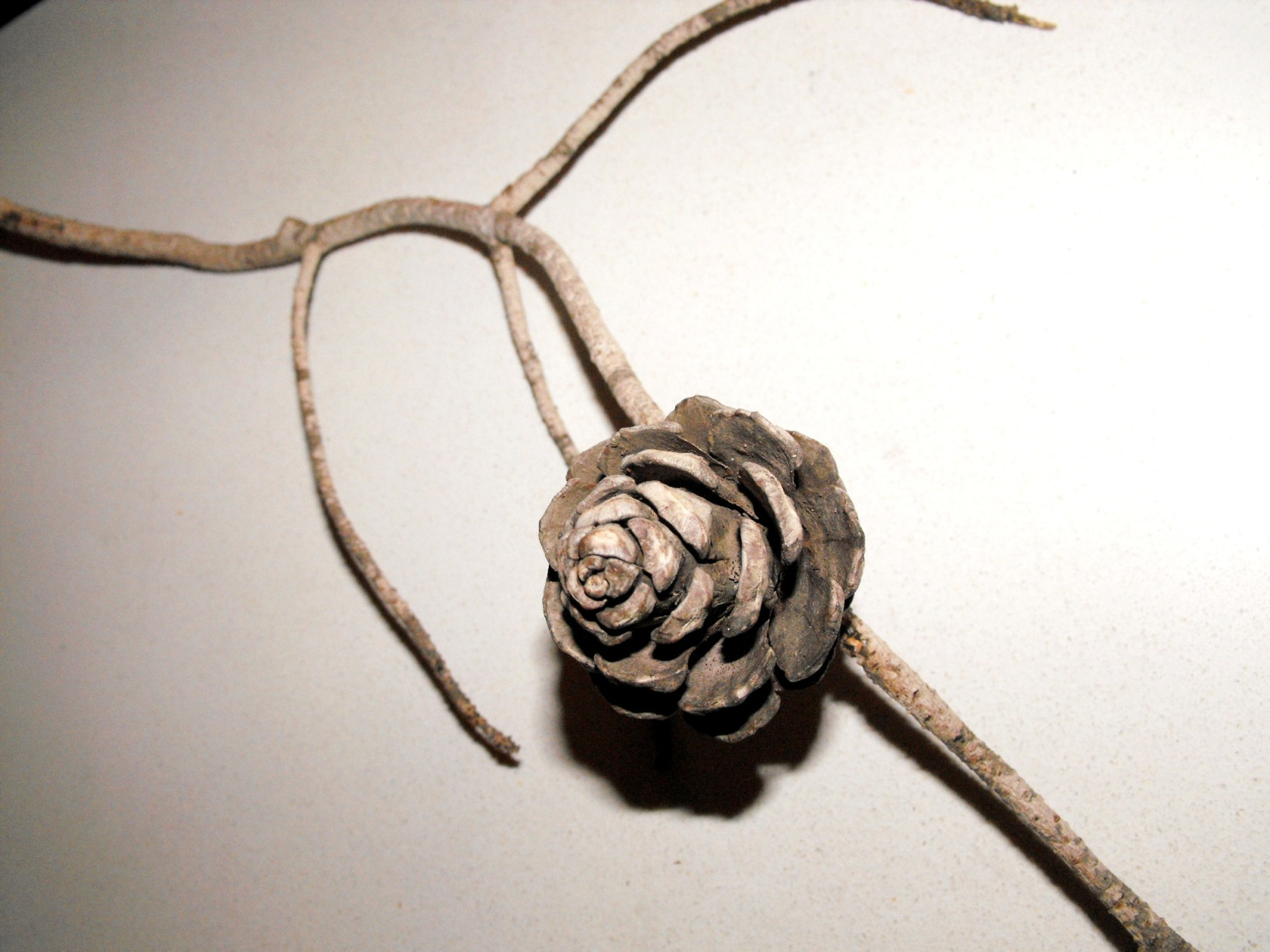 Plants of Israel